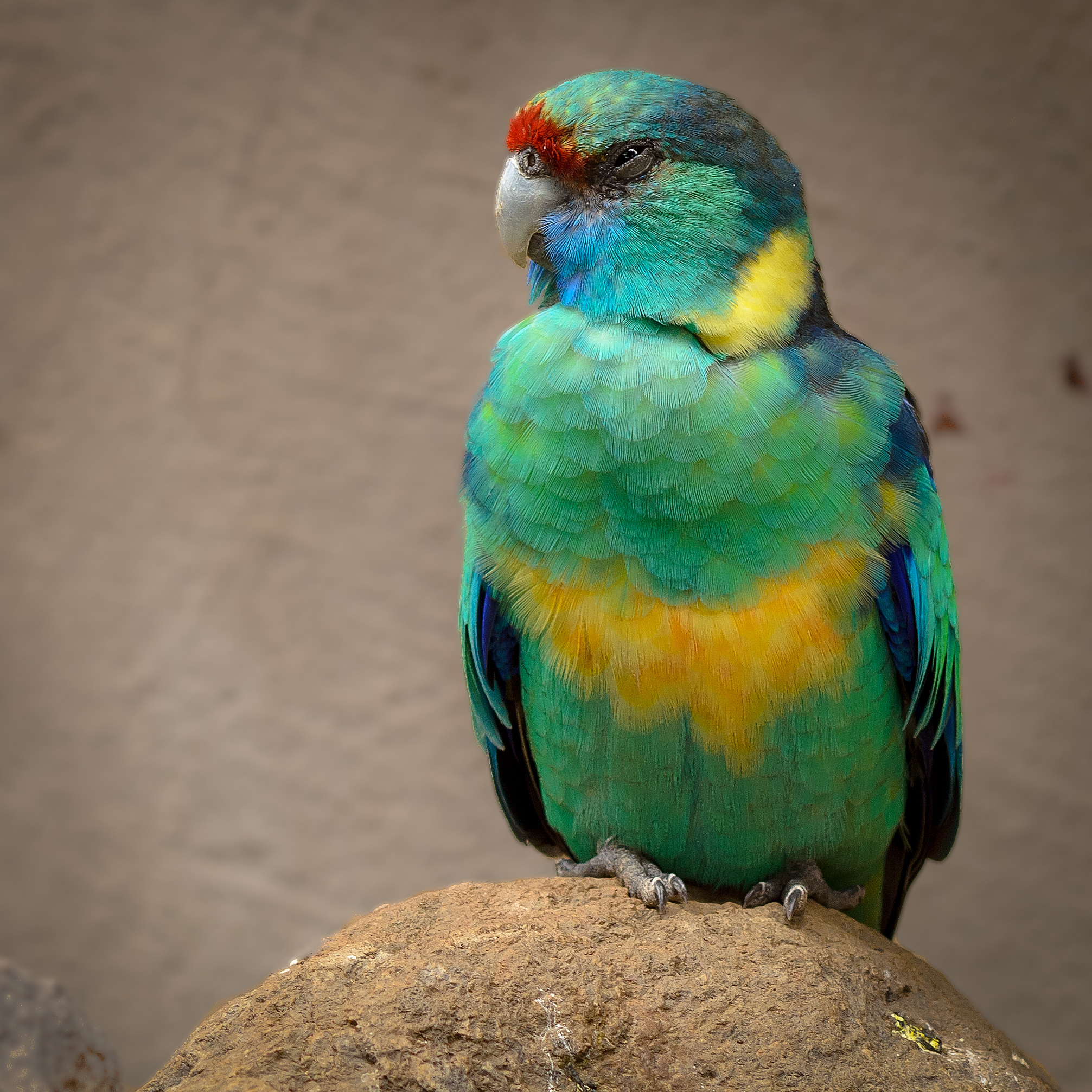 An Australian Ringneck at Palmitos Park, Gran Canaria, Canary islands, Spain. This subspecies is also known as the Mallee Ringneck.